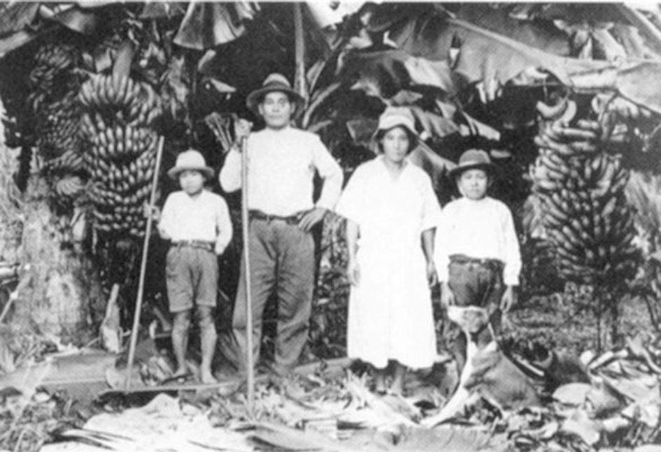 Japanese immigrant family in Brazil